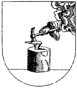 Coat of arms of the city of eskilstuna